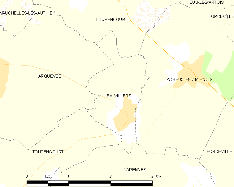 Map of French municipality Léalvillers